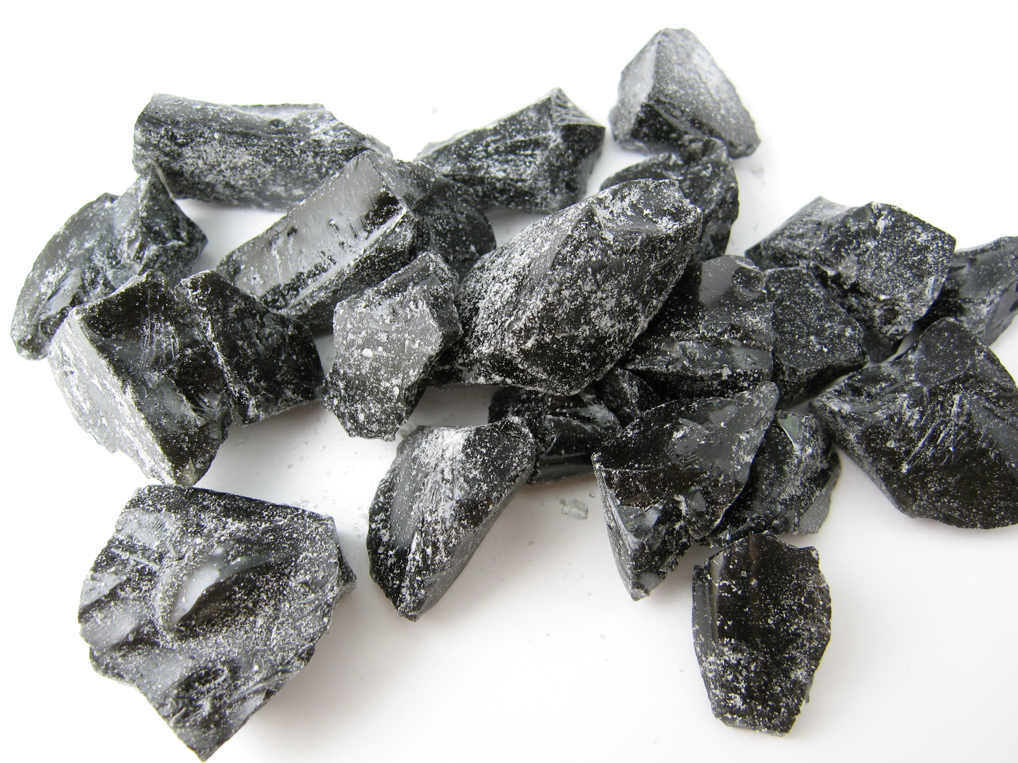 The candy like the coal "kaitaname" , Akabira Hokkaido, Japan